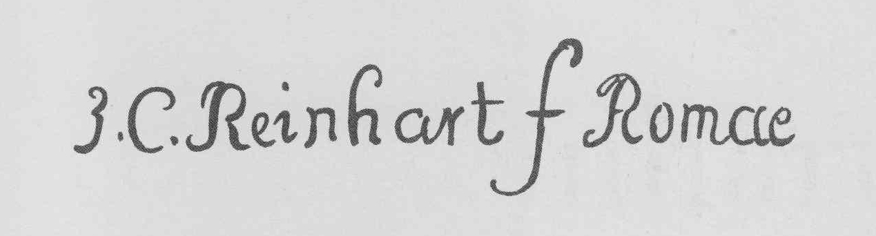 autograph of the painter Johann Christian Reinhart